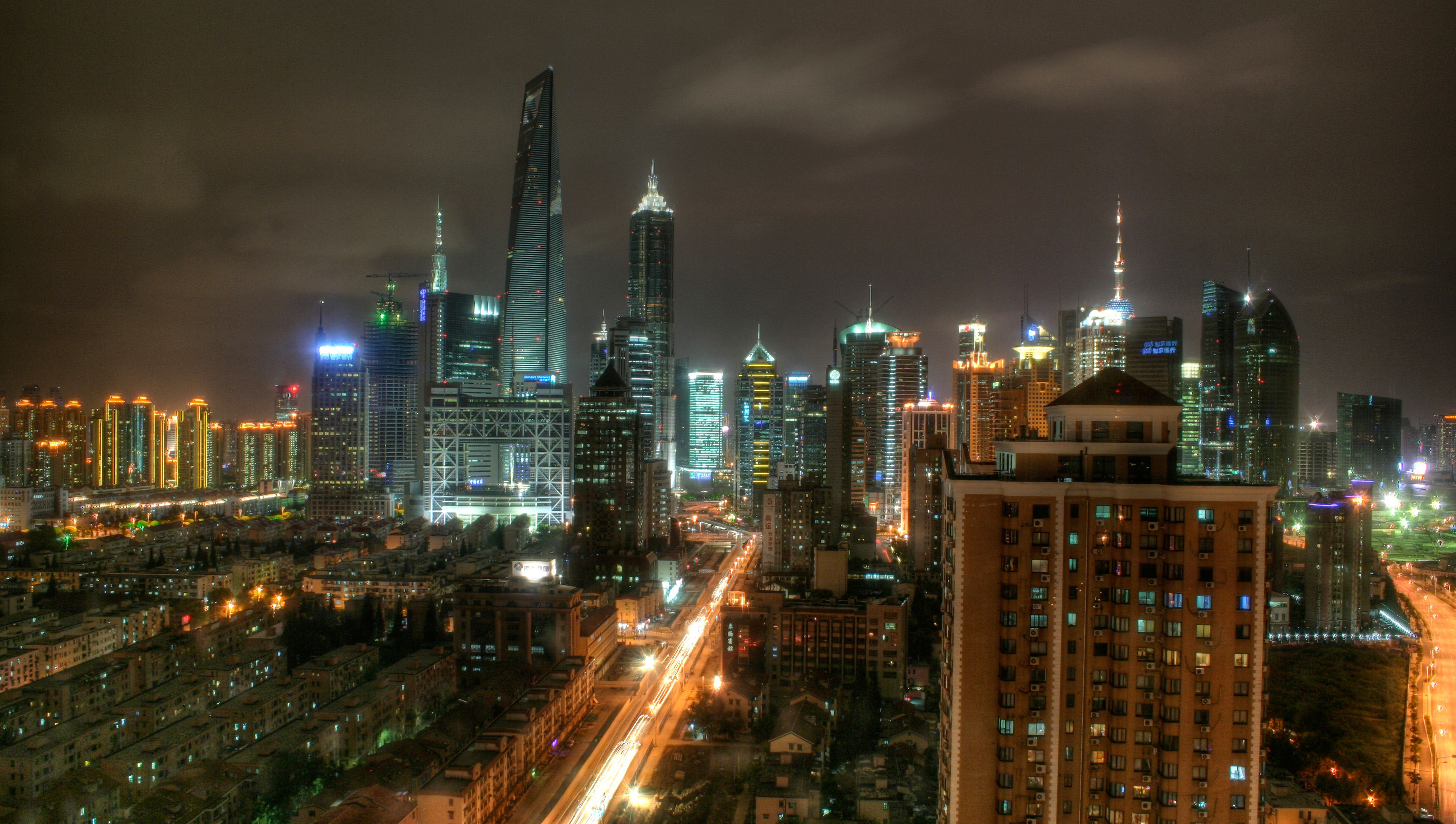 View at Shanghai Pudong from the Eton Hotel